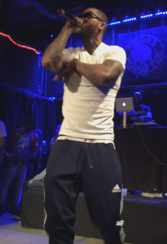 Dave East performing in June 2016